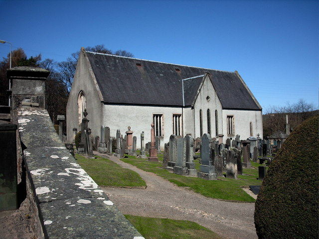 Mortlach Church,Dufftown. This has been a site of Christian worship since 566AD when Moluag of Bangor established the church. It was also the site of a Scottish victory against the Danes in 1010. There is a fascinating graveyard.